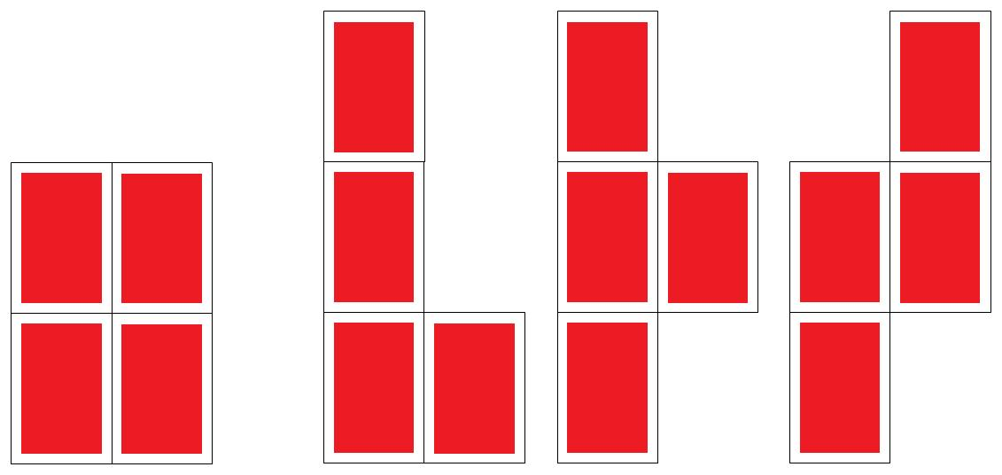 Schemes of the 4-block in narrow sense and other 4-blocks